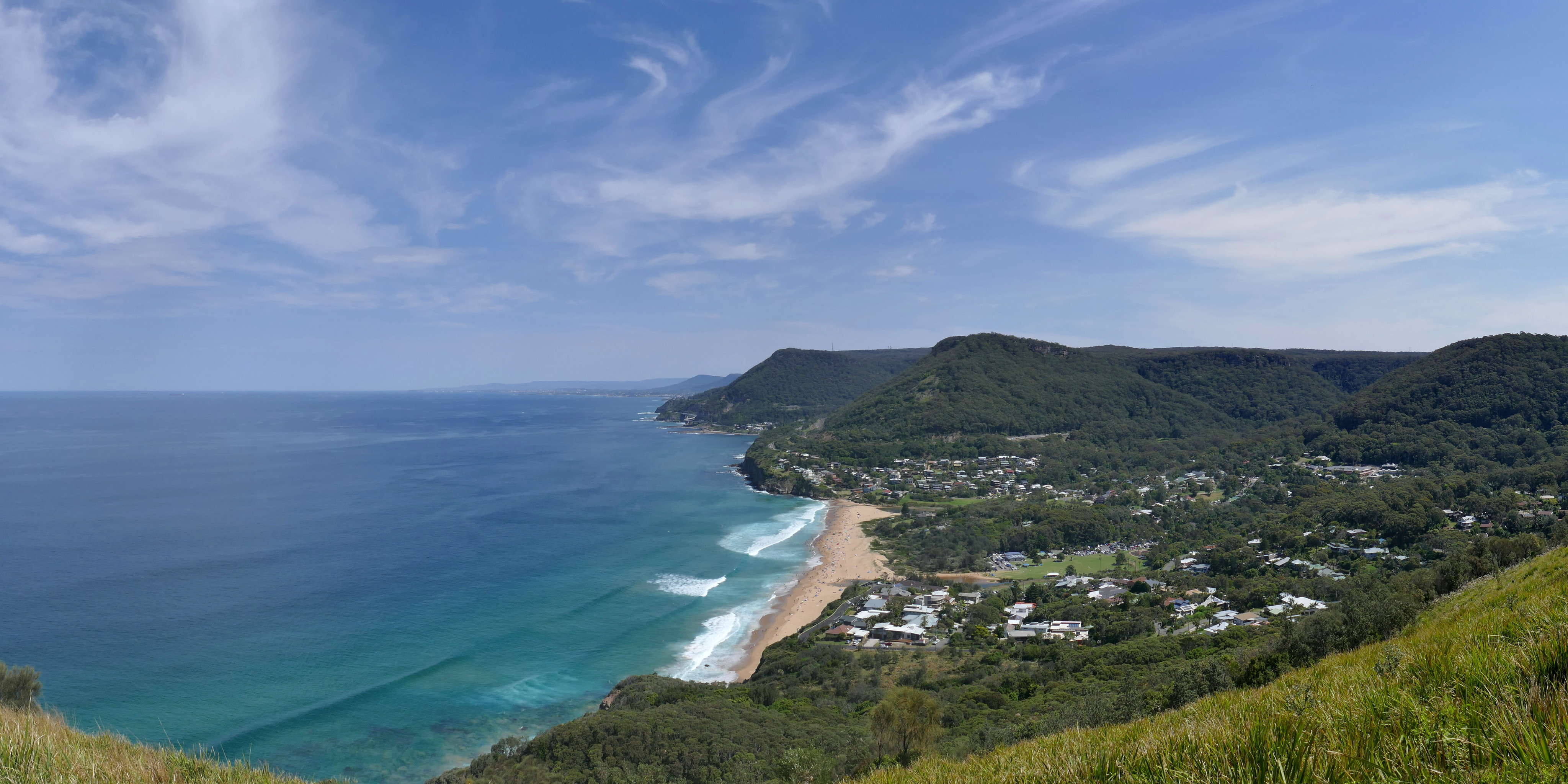 A view of Stanwell Park and surrounds from Bald Hill.